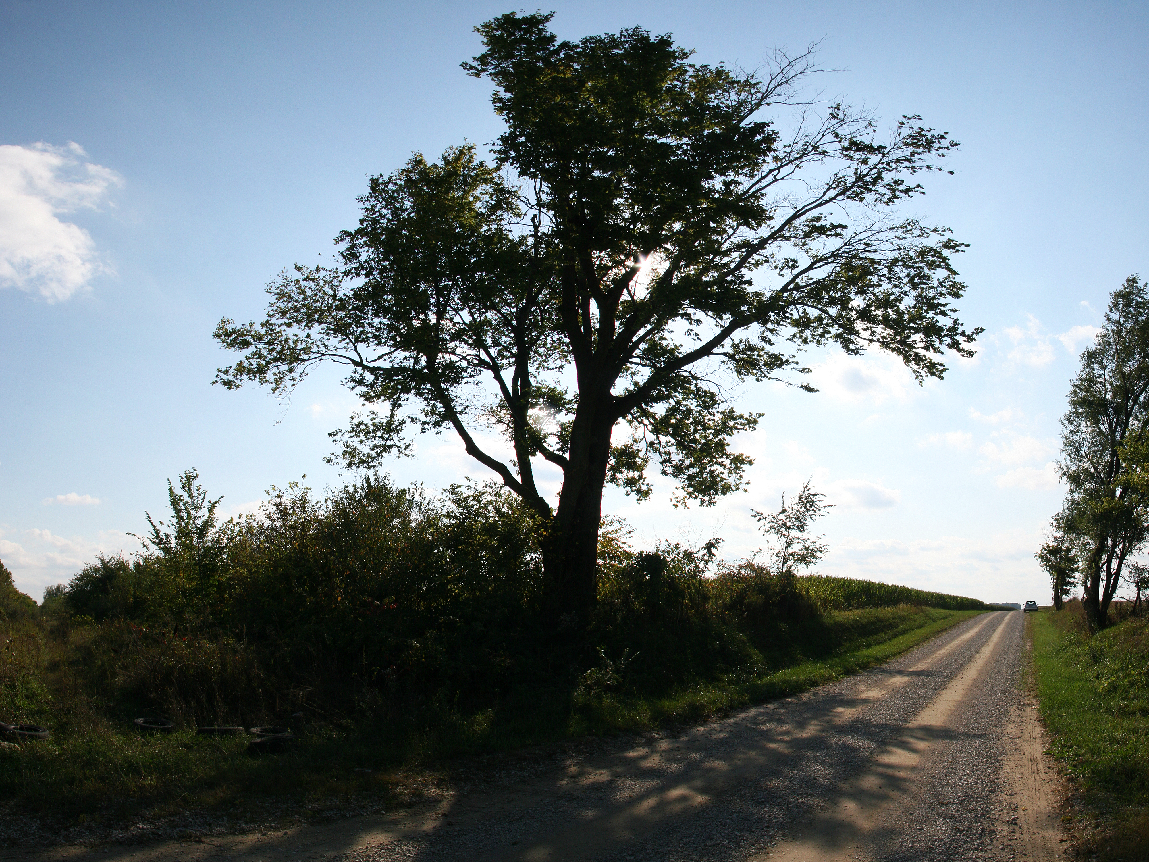 A tall tree stands near the site of Ellis, an extinct locality in rural Clinton County, Indiana between Kilmore and Moran. The right side of the photo looks west along County Road 600 North; the left looks south along the path of the defunct railroad.